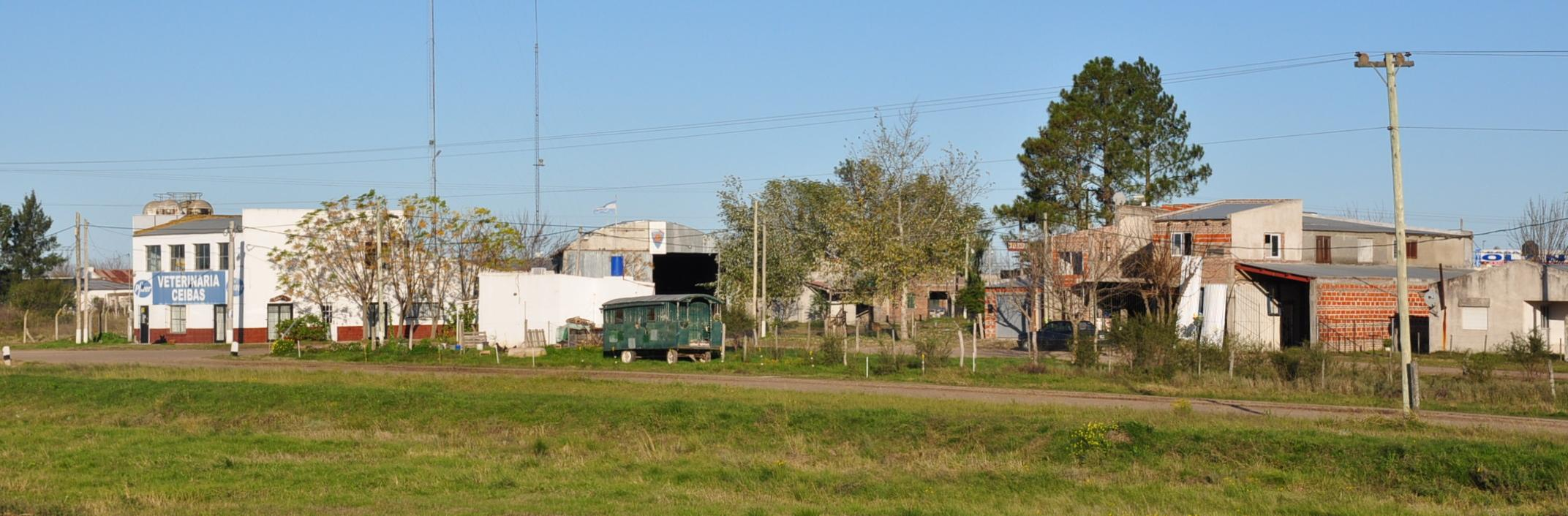 Ceibas, a village in the Province Entre Ríos (Argentina), where Ruta Nacional 14 (RN 14) starts. Picture taken from RN 12, that passes through the village.